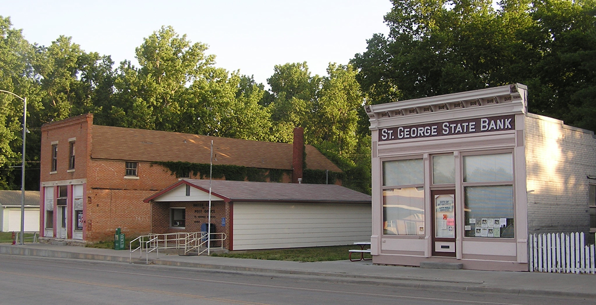 First Street in St. George, Kansas in May 2012, showing the St. George Bank building, now used as a city hall, and the St. George post office.